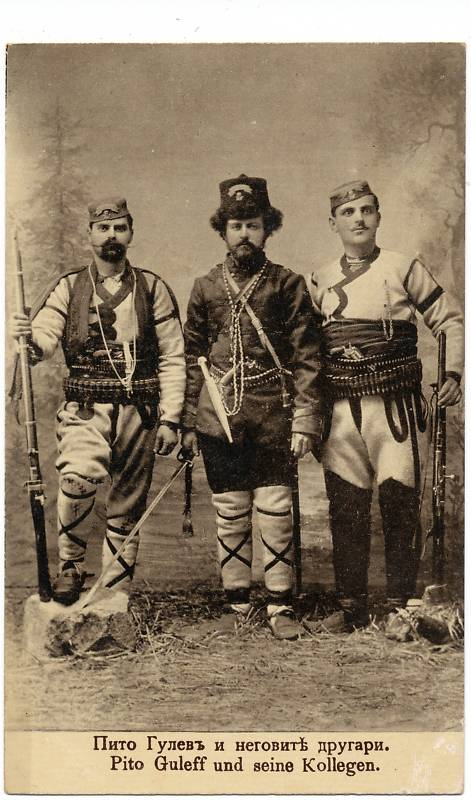 Mito Muchitanov (Mitu Muchitano), Pitu Guli and Petar Liavra.